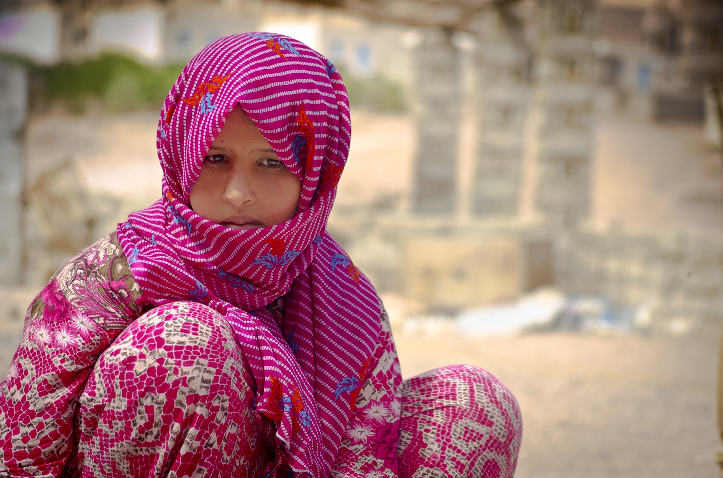 The Bedouin (/ˈbɛdʉ.ɪn/, also Bedouins; from the Arabic badw بَدْو or badawiyyīn/badawiyyūn/"Al Buainain بَدَوِيُّون, plurals of badawī بَدَوِي) are an Arab seminomadic group, descended from nomads who have historically inhabited the Arabian and Syrian Deserts. Their name means "desert dwellers" in Arabic.[30] Their territory stretches from the vast deserts of North Africa to the rocky sands of the Middle East.[30] They are traditionally divided into tribes, or clans (known in Arabic as ʿashāʾir; عَشَائِر) and share a common culture of herding camels and goats